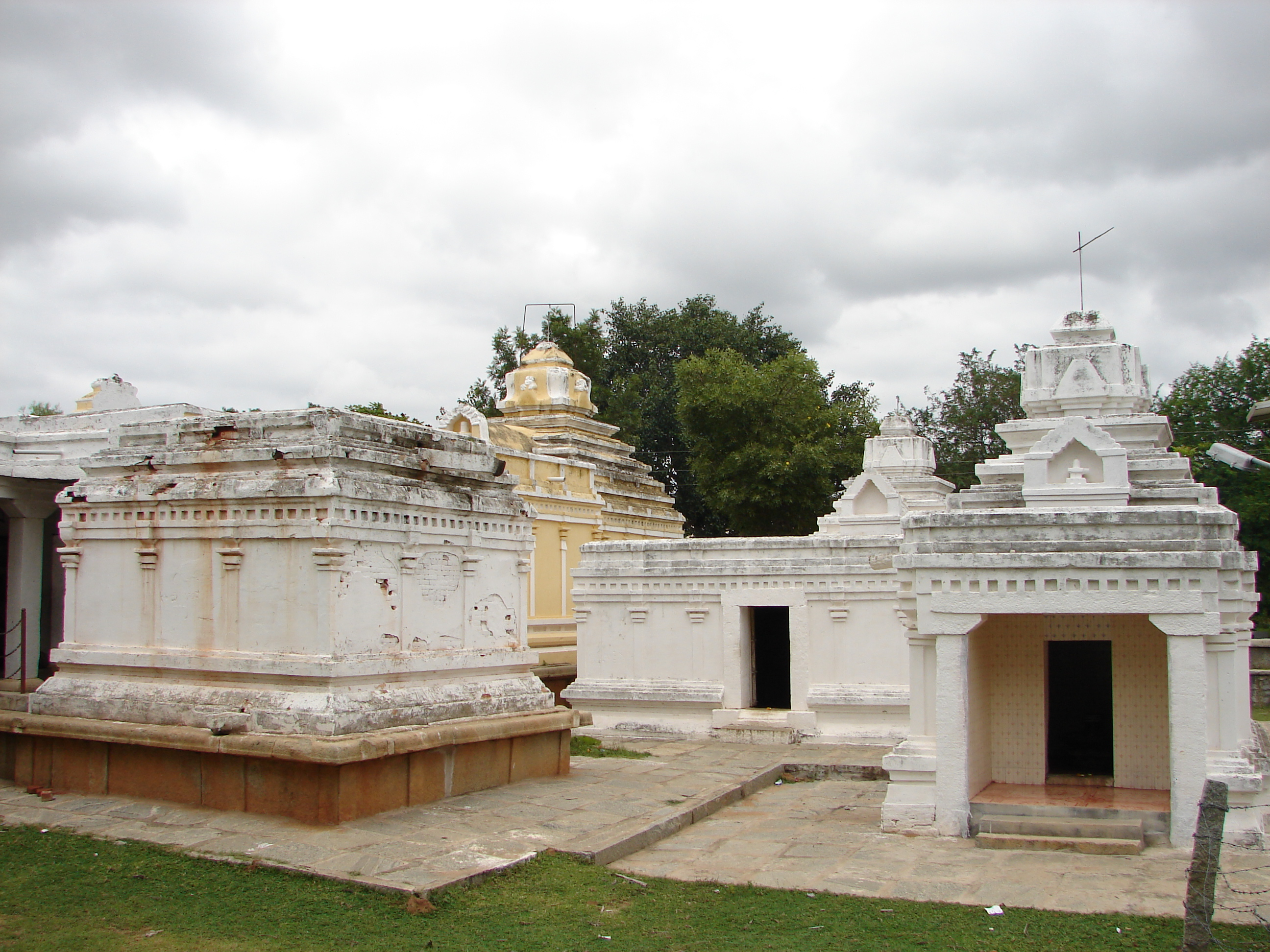 This photograph was taken by me at the Kalleshvara temple (also spelt as Kalleshwara) in Aralaguppe, Tumkur district, Karnataka state, India. This 9th-10th century construction is a good example of the Nolamba dynasty style of architecture.